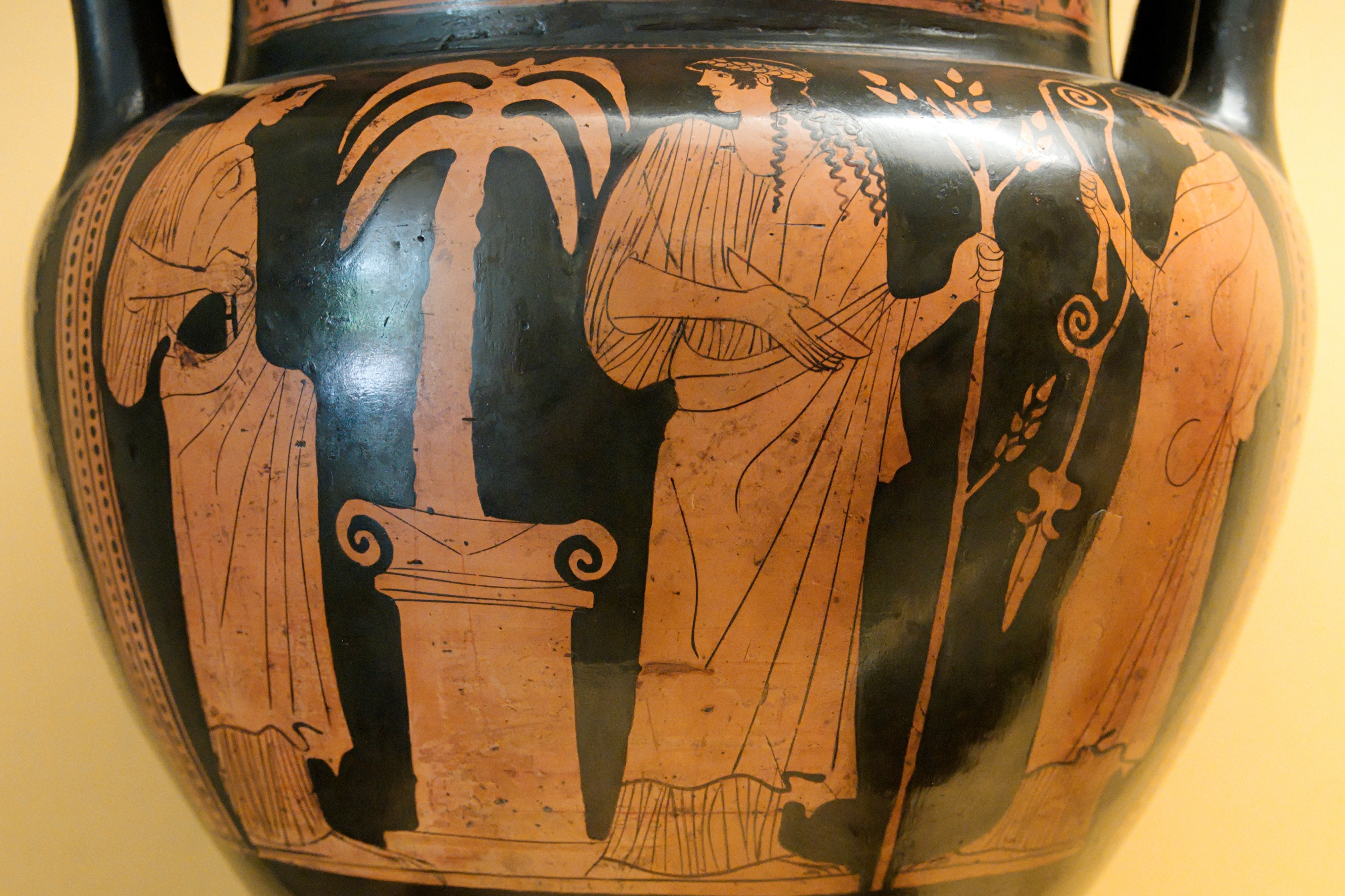 From left to right: Artemis holding an oinochoe; Apollo holding a laurel branch and a phiale, about to pour a libation on the altar left; the personification of the Delos island on which the scene takes place (see the palm-tree). Attic red-figure column-krater.